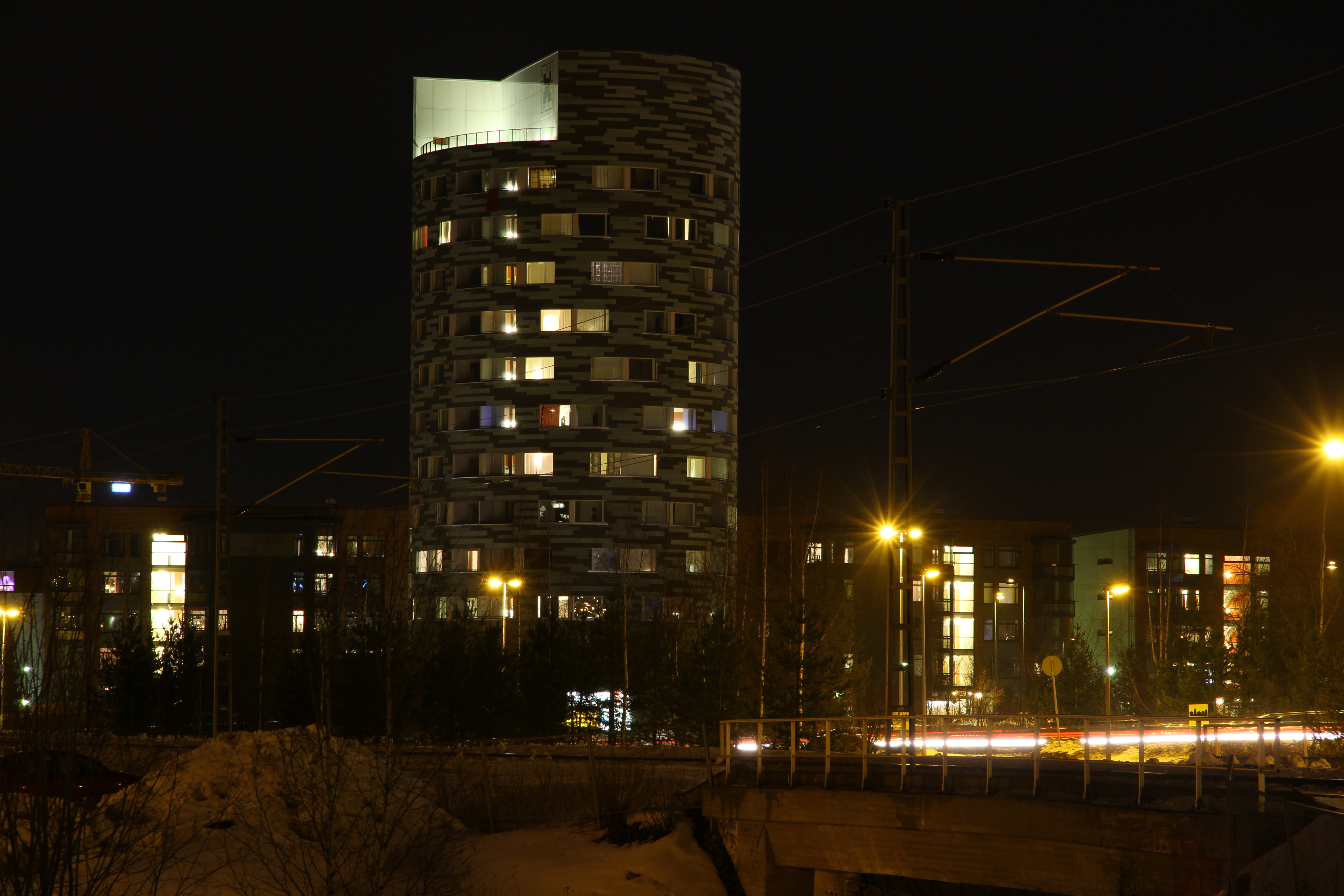 Ikituuri is an apartment building for students with 12 floors, totaling 43 meters in height. It is newest building project of the Student Village Foundation of Turku. Ikituuri is located in city of Turku, Finland.